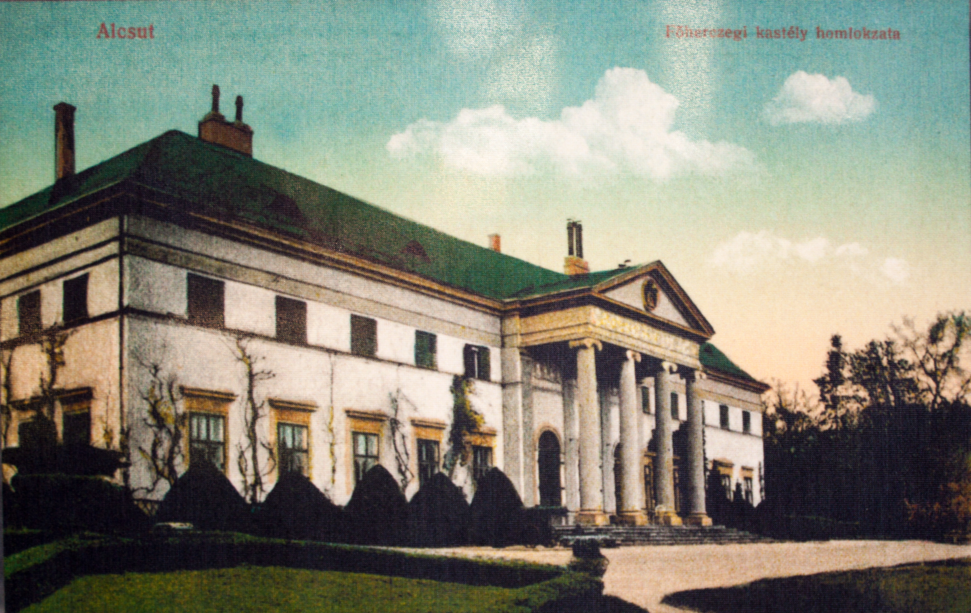 Postcard of the mansion of the Archduke in Alcsút